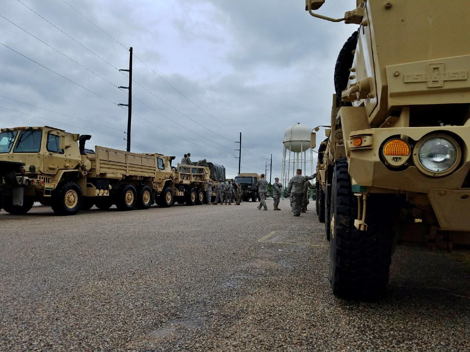 Soldiers of the Texas National Guard prepare vehicles for emergency response before Hurricane Harvey. Photo by SSG Pruitt. Photo by SSG Pruitt